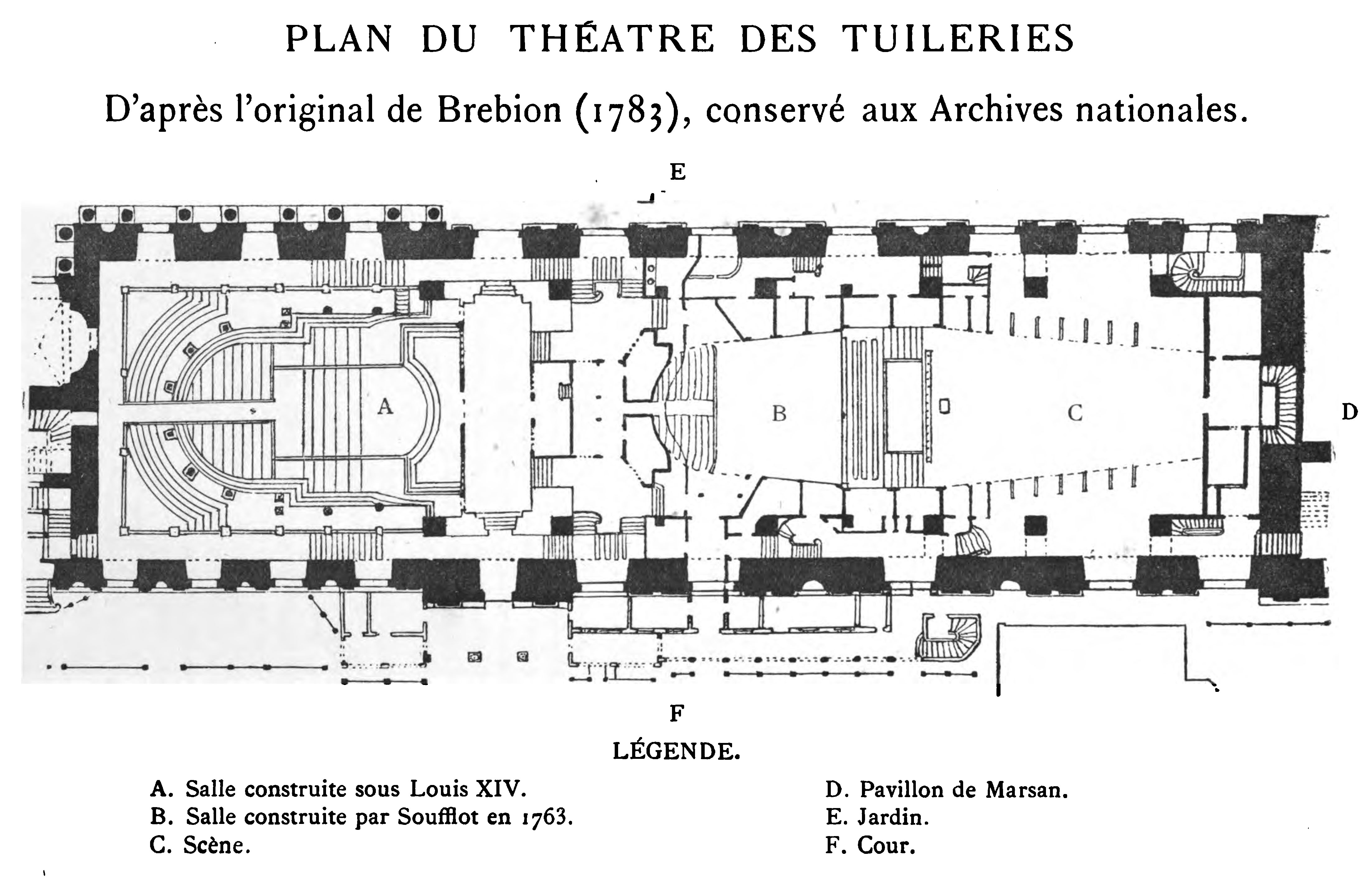 Plan of the Théâtre des Tuileries in Paris as modified by the French architects Jacques-Germain Soufflot and Ange-Jacques Gabriel in 1763